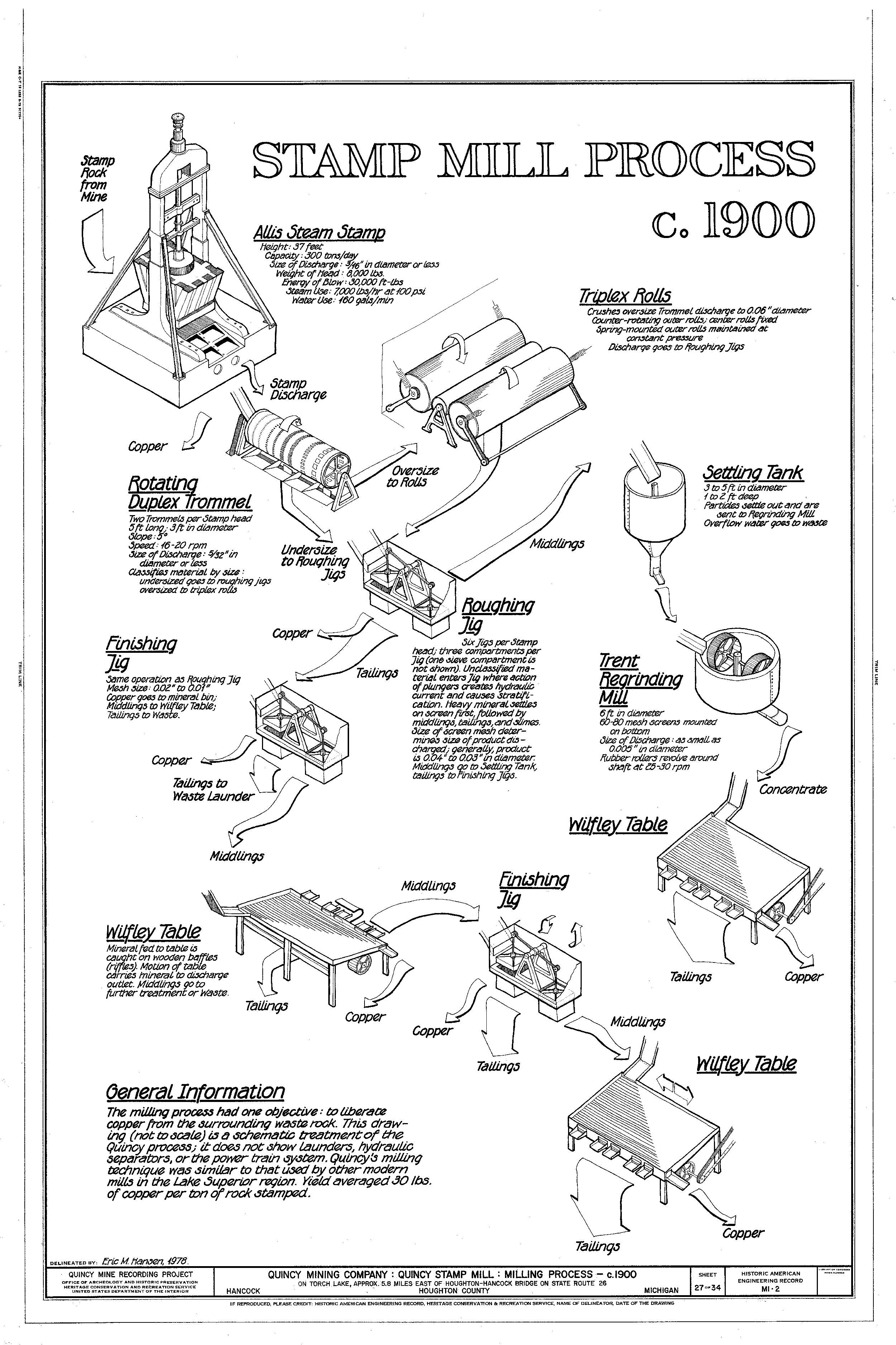 Drawing of layout of the Quincy Stamping Mills, near Mason in Houghton County MI.